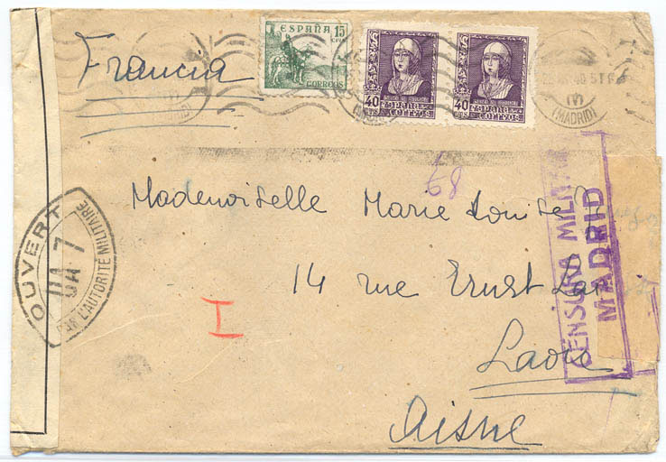 World War II censor cover from Madrid to Paris censored by Spanish and French (Vichy) authorities Author: Ww2censor